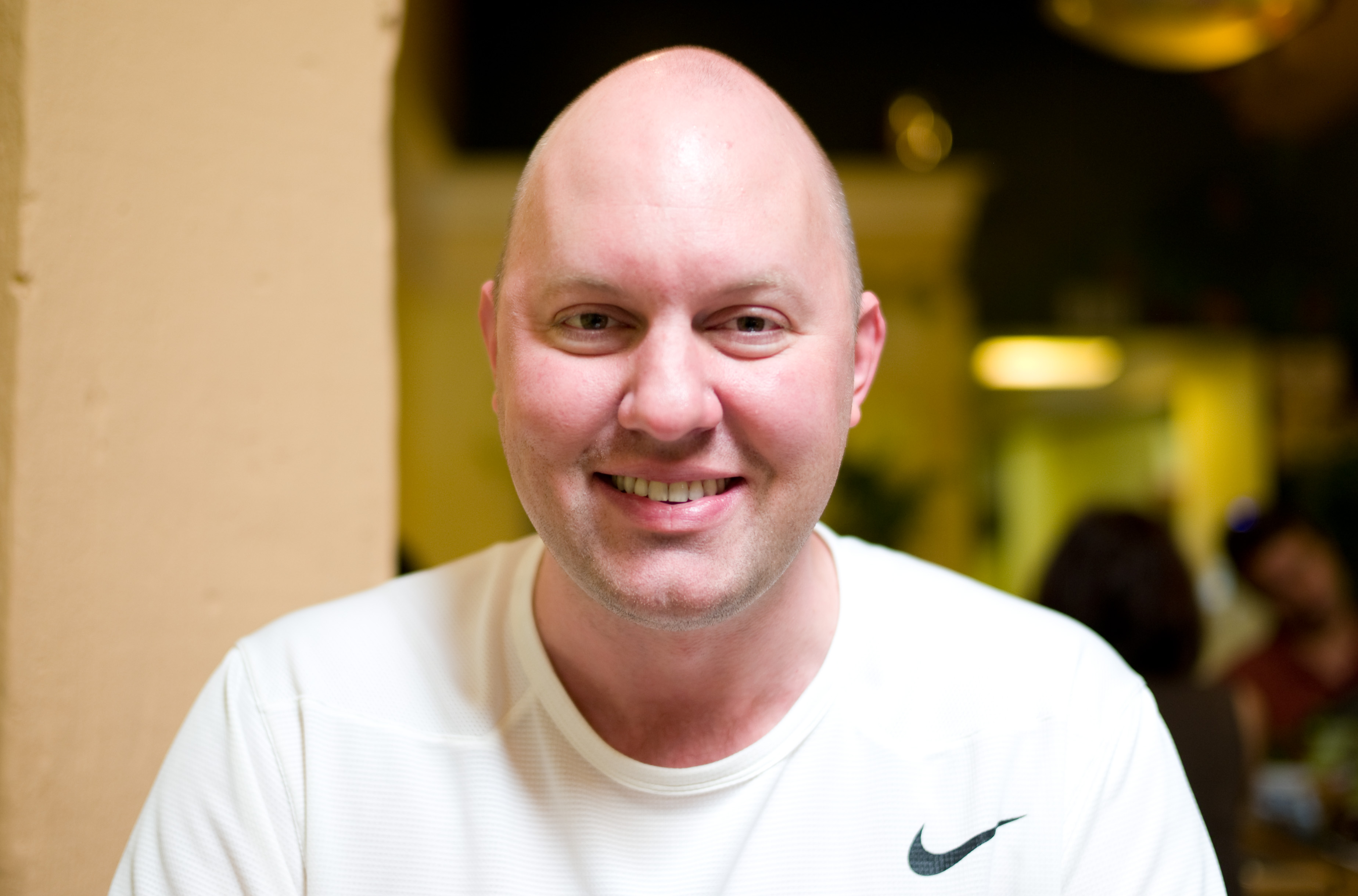 Marc Andreessen